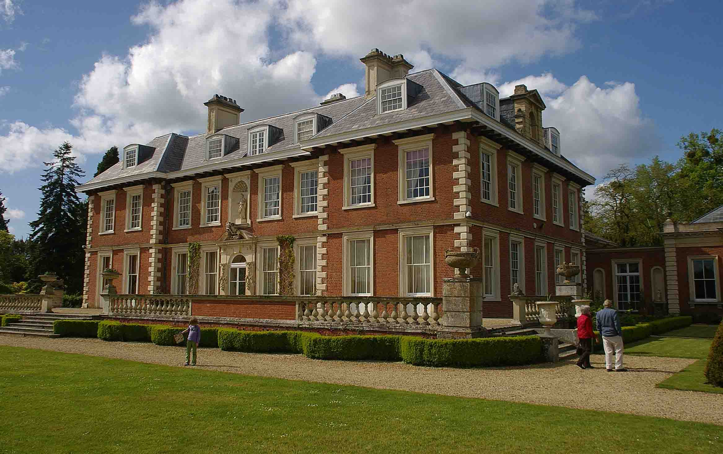 Highnam Court, Gloucester. Unfortunately I saved this at very low fidelity and lost my original. Sorry.